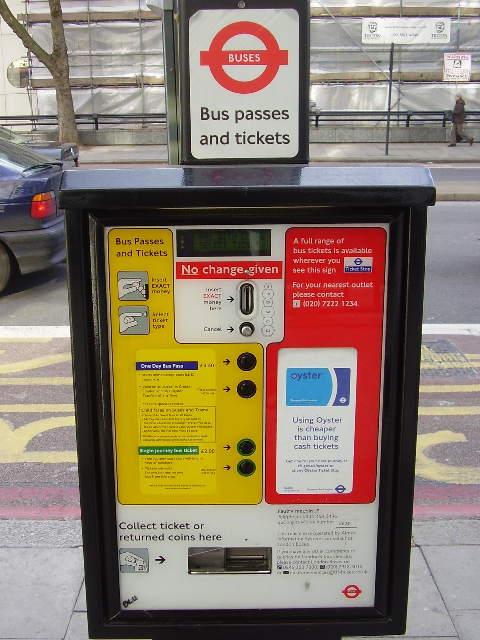 Photo of ticket machine in London (Vauxhall Bridge Road), taken in January 2007. Feel free to use.